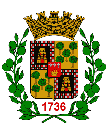 Seal of Guayama